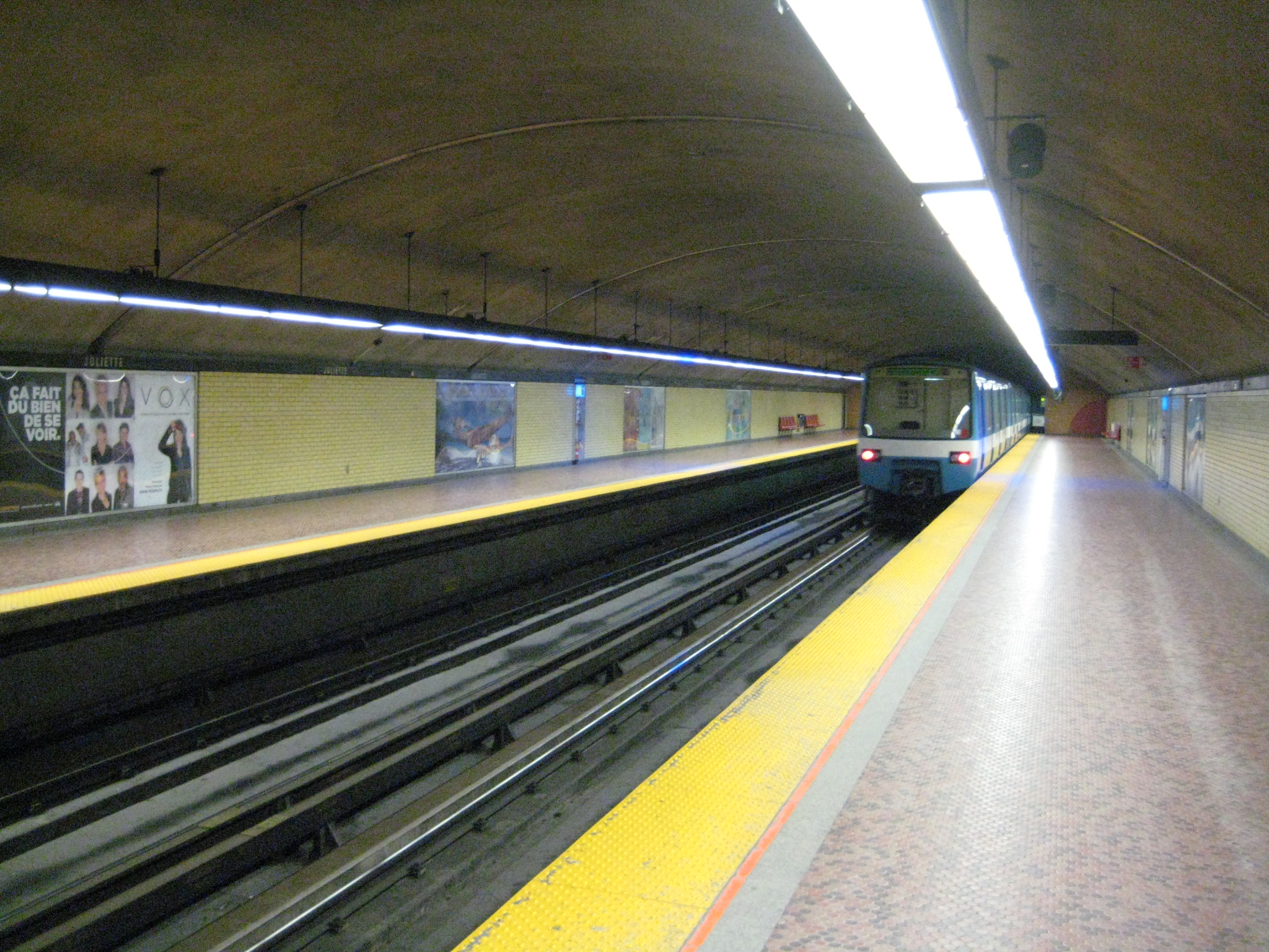 Joliette Station Metro Montreal